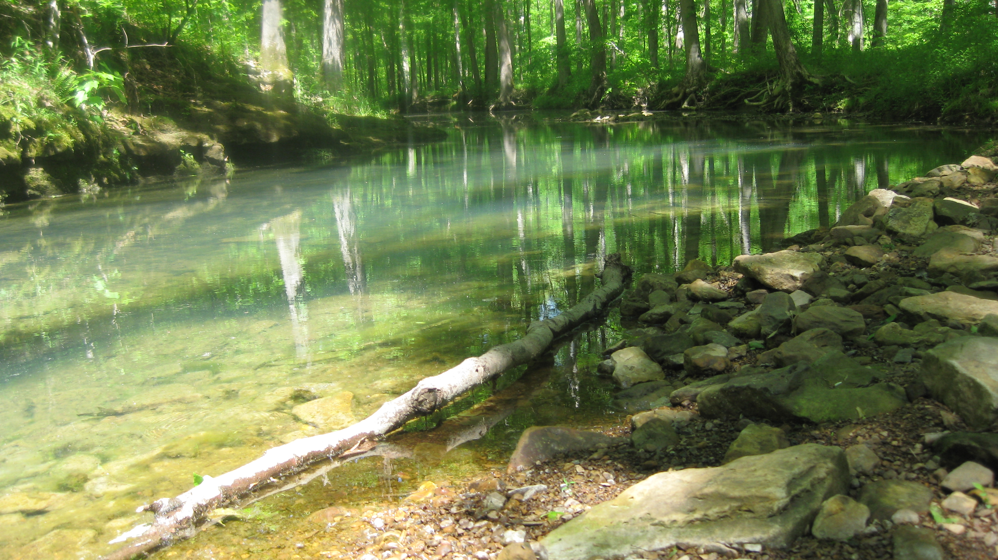 Runoffs of Devil's Kitchen Lake flow through Panther Den. A lot of creek crossings are necessary when hiking the Panther Den Loop.